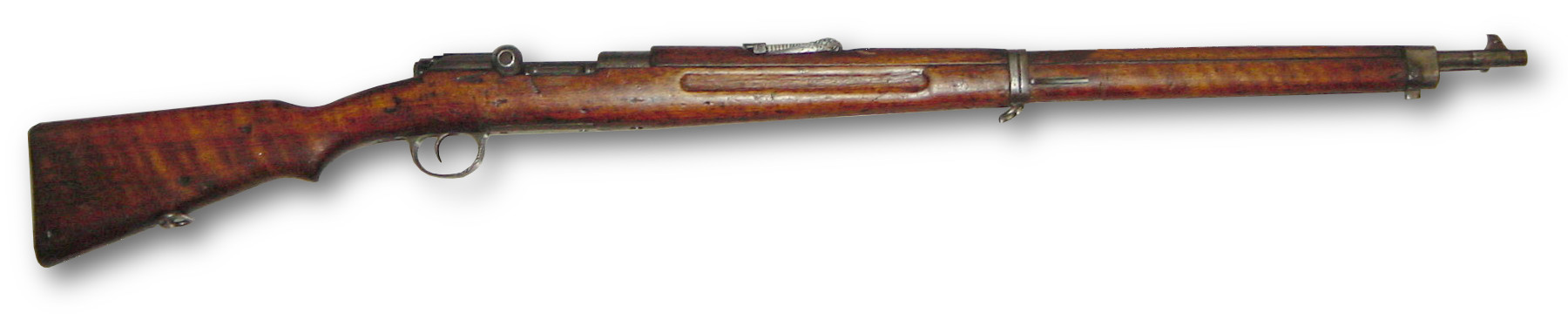 This is my picture taken from a museum.